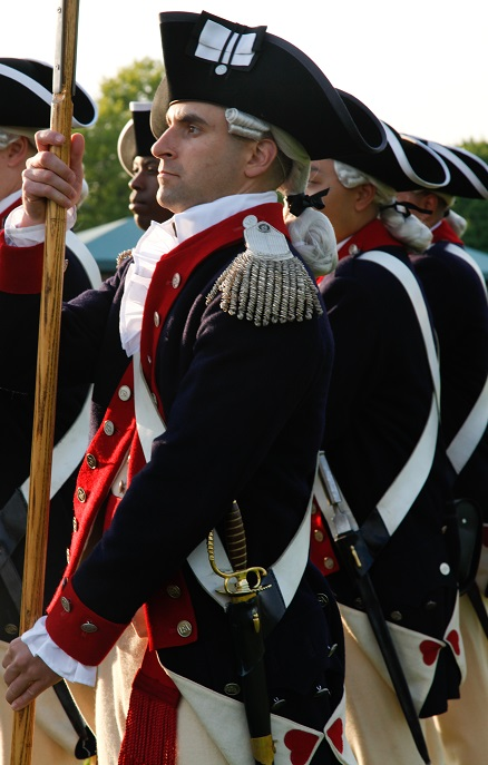 The Commander-in-Chief's Guard from 3d U.S. Infantry Regiment (The Old Guard), stand in formation during Twilight Tattoo at Summerall Field, Joint Base Myer-Henderson Hall, Va., May 7, 2014. The Old Guard conducts ceremonies and special events to represent the Army. (U.S. Army photo by Spc. Alyssa Madero/Released)